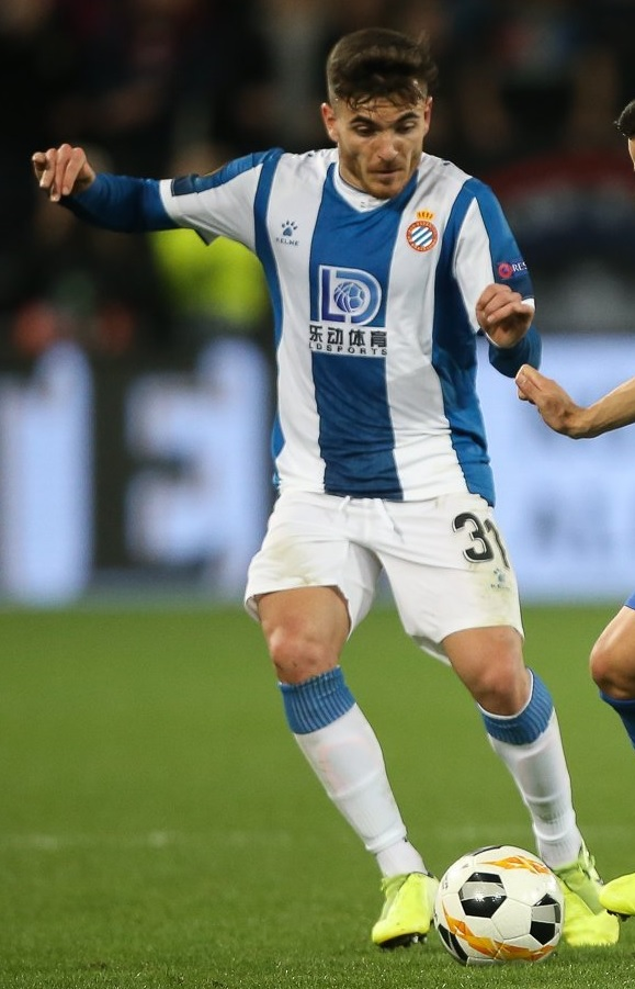 Víctor Campuzano with RCD Espanyol in an Europa League game against PFC CSKA Moscow.